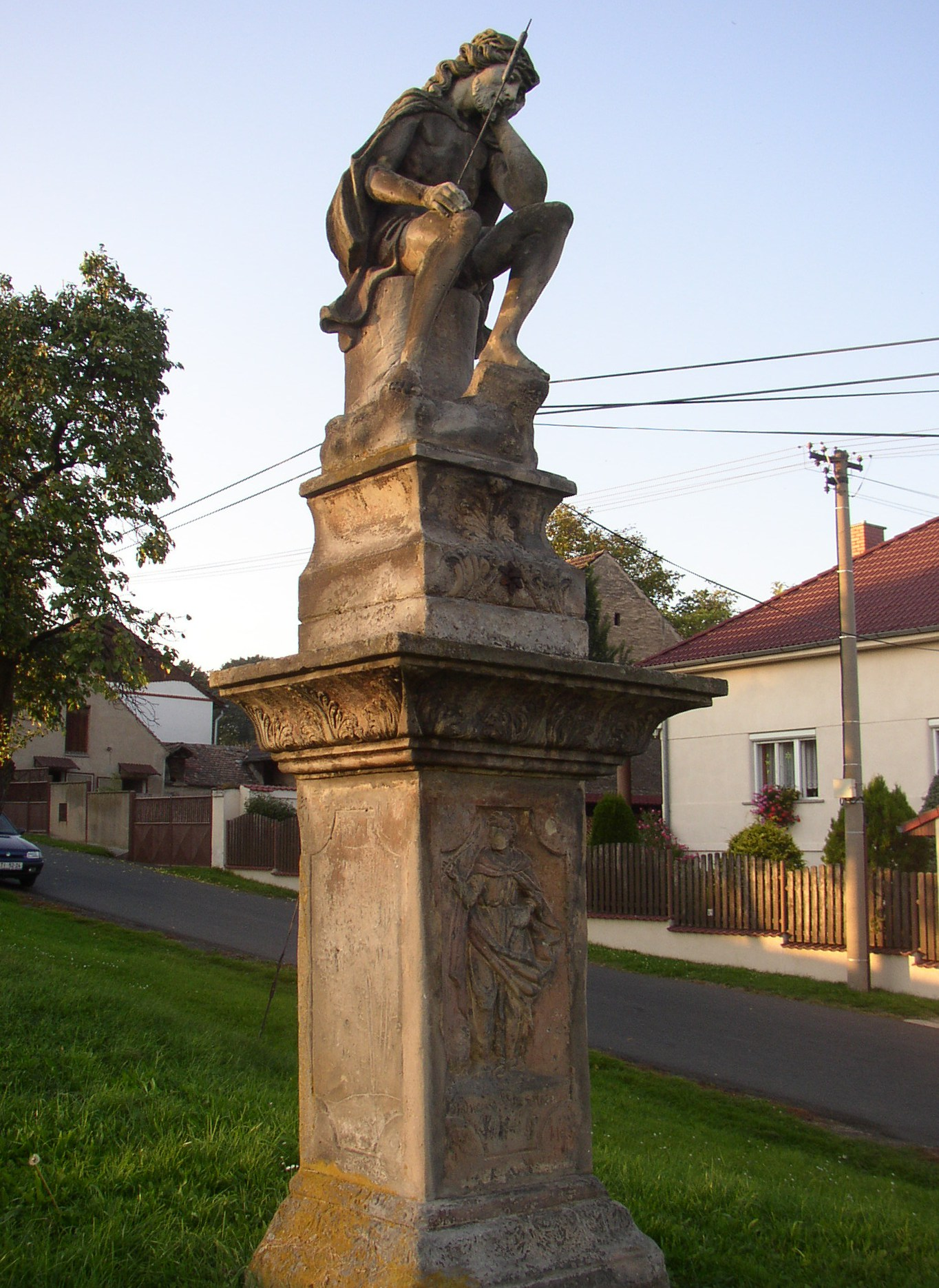 Sculpture of Pensive Christ (1746) in village of Čížkovice, Litoměřice District, Czech Republic.